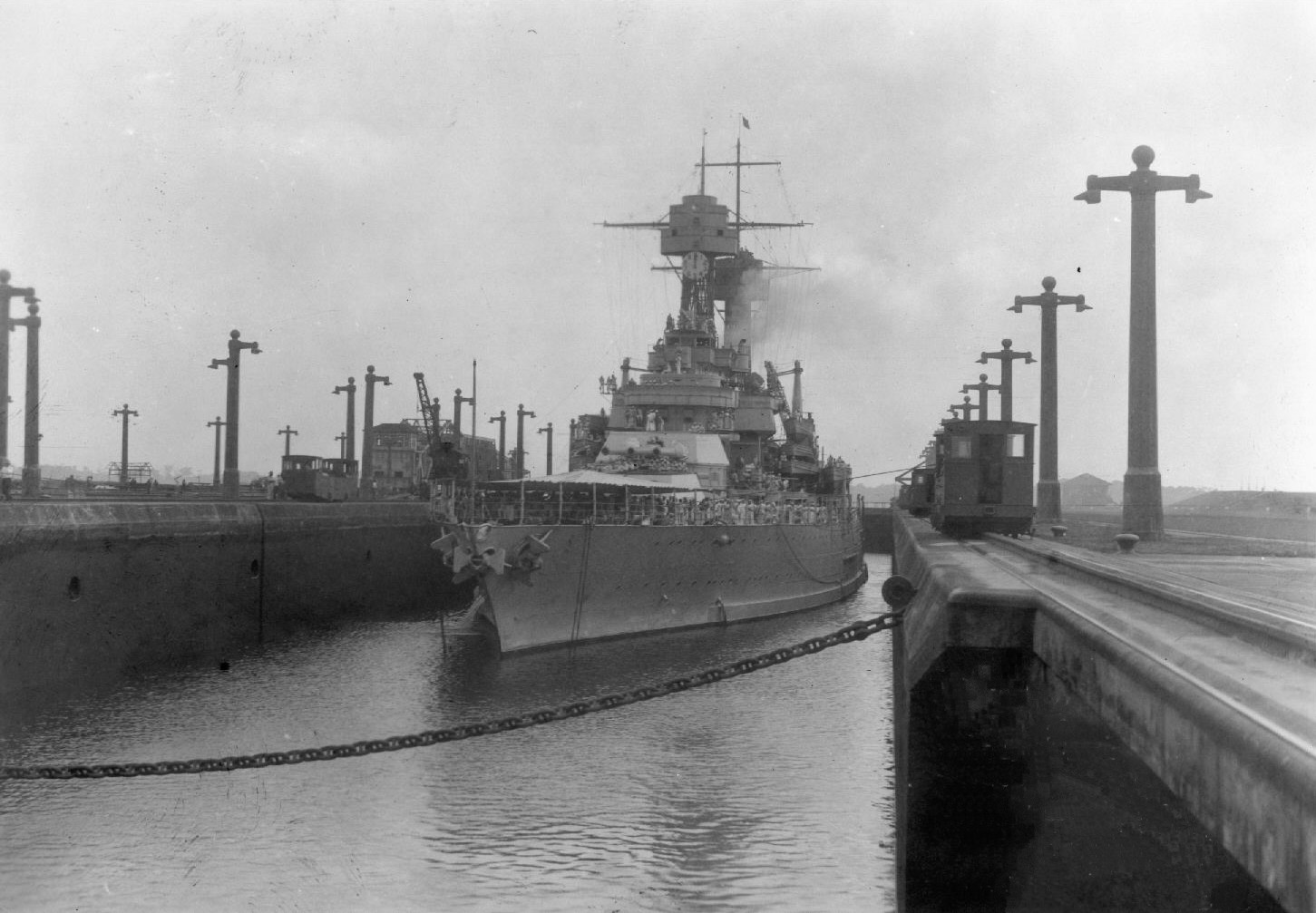 The U.S. Navy battleship USS California (BB-44) in the Gatun Locks during her passage through the Panama Canal, 8 March 1927.